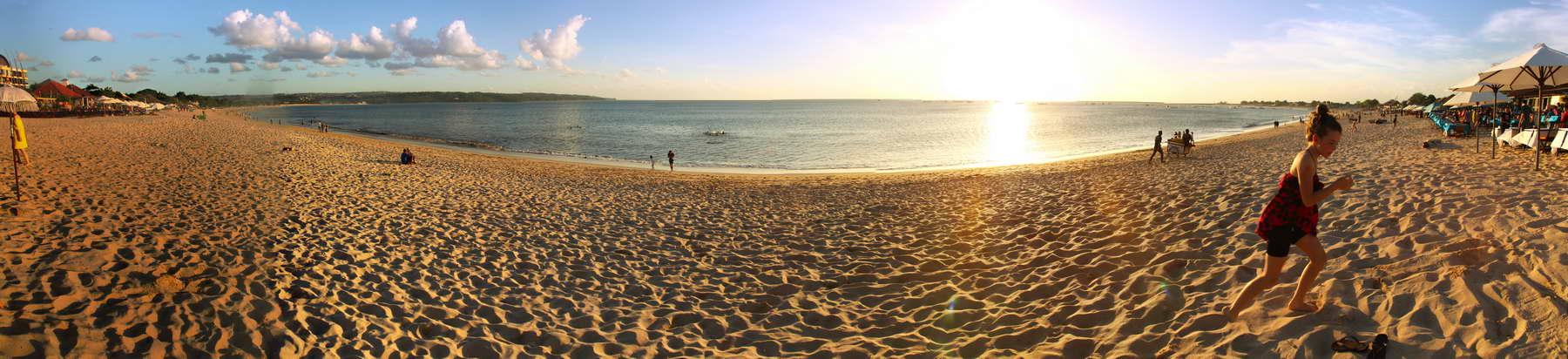 Panorama of Jimbaran Bay at sunset